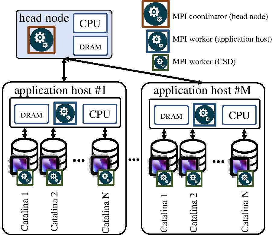 This image shows the diagram of a cluster that is equipped with computational storage devices (CSDs) based on the in-storage processing technology that is configured to run distributed applications based on MPI.